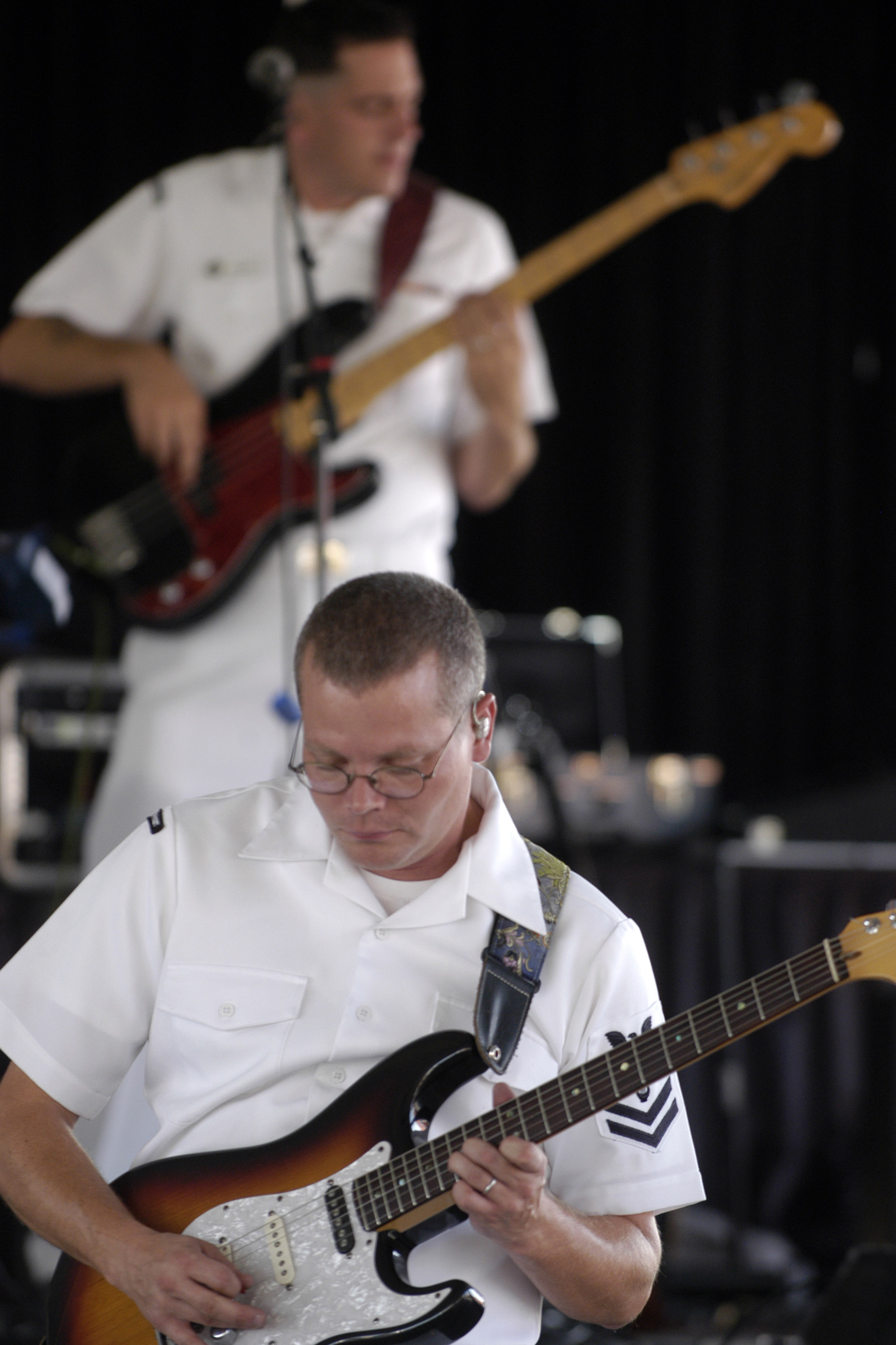 SALT LAKE CITY (Sept. 7, 2007) - The U.S. Navy Band Southwest, the Destroyers, performs at the Utah State Fair in conjunction with Utah Navy Week. The 26 Navy Weeks held across America in 2007 are designed to show Americans the investment they have made in their Navy and to increase awareness of the Navy in cities that do not have a significant Navy presence. U.S. Navy photo by Mass Communication Specialist 1st Class Josh Treadwell (RELEASED)